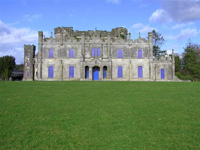 Necarne Castle (Castle Irvine) , Irvinestown There is an equestrian centre within the grounds. It was built in the first half of the 17th century. The family is of Scottish origin, being directly descended from the Irvings of Bonshawe, Dumfriesshire, whose ancestor was Robert de Herewine, 1226. Christopher Irvine of the Temple, London, was the first to settle in Ireland and being granted lands in Co. Fermanagh, he built the Castle, but the rebels set fire to it in 1641. Necarne Castle as it is known today was used as a hospital for injured airmen during WW2